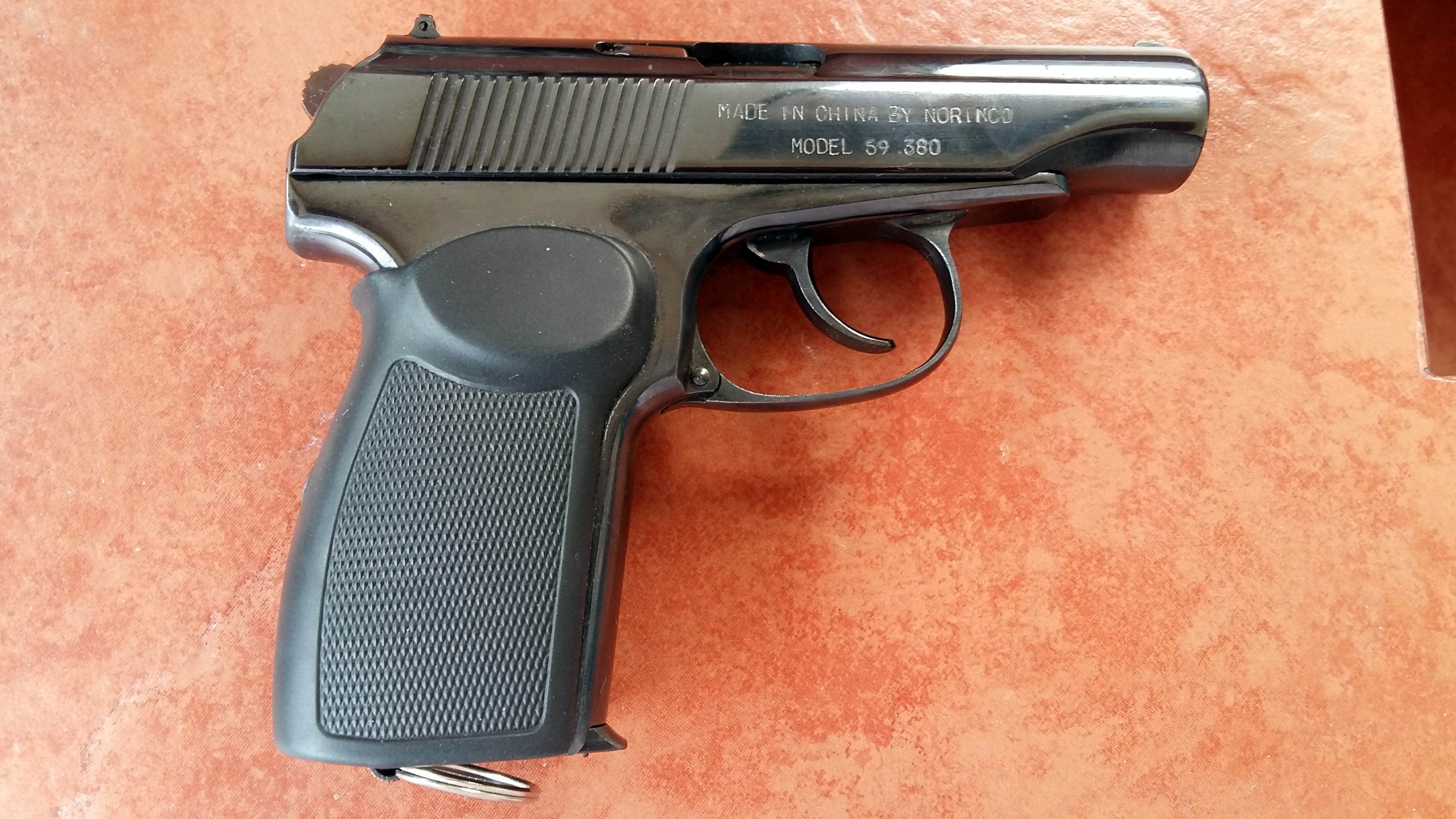 A Norinco Model 59 Semi-Automatic Pistol in .380 Auto caliber with a Pearce Rubber Grip. The Model 59 is a Chinese licensed copy of the Makarov Pistol.